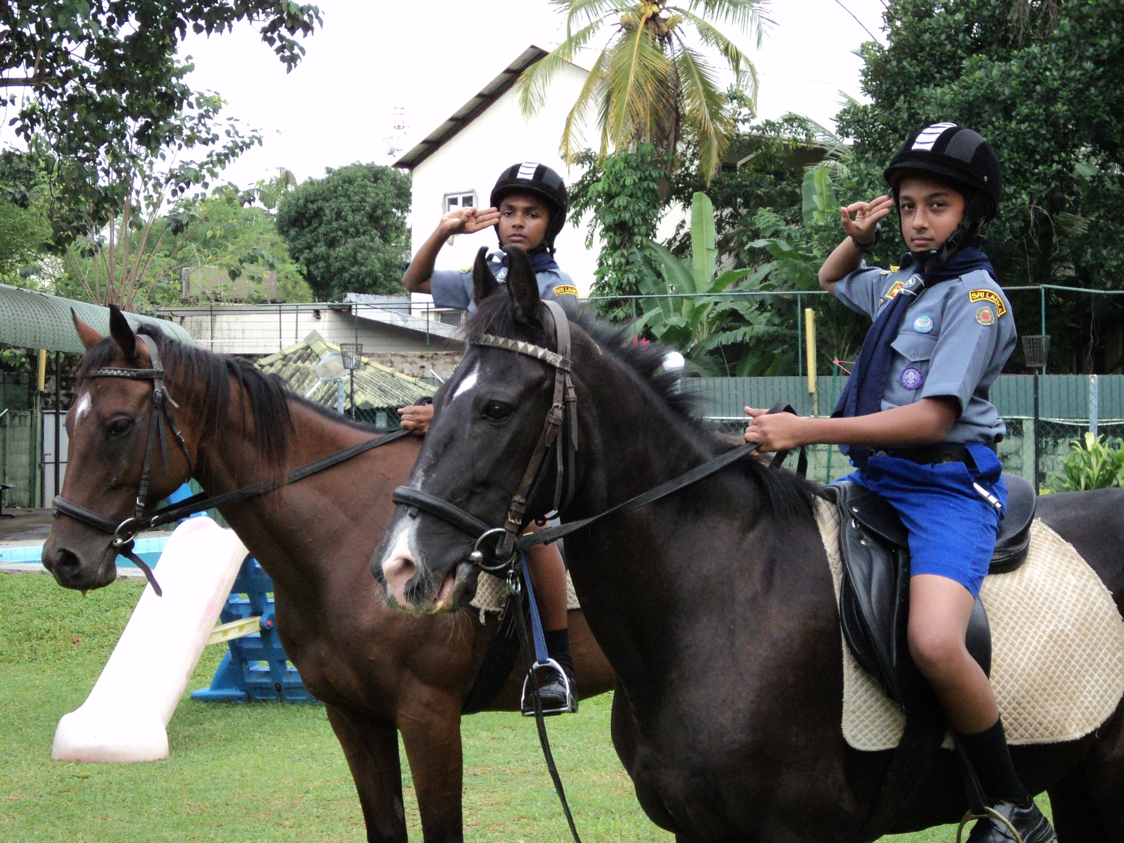 Equestrian Scout - Sri Lanka